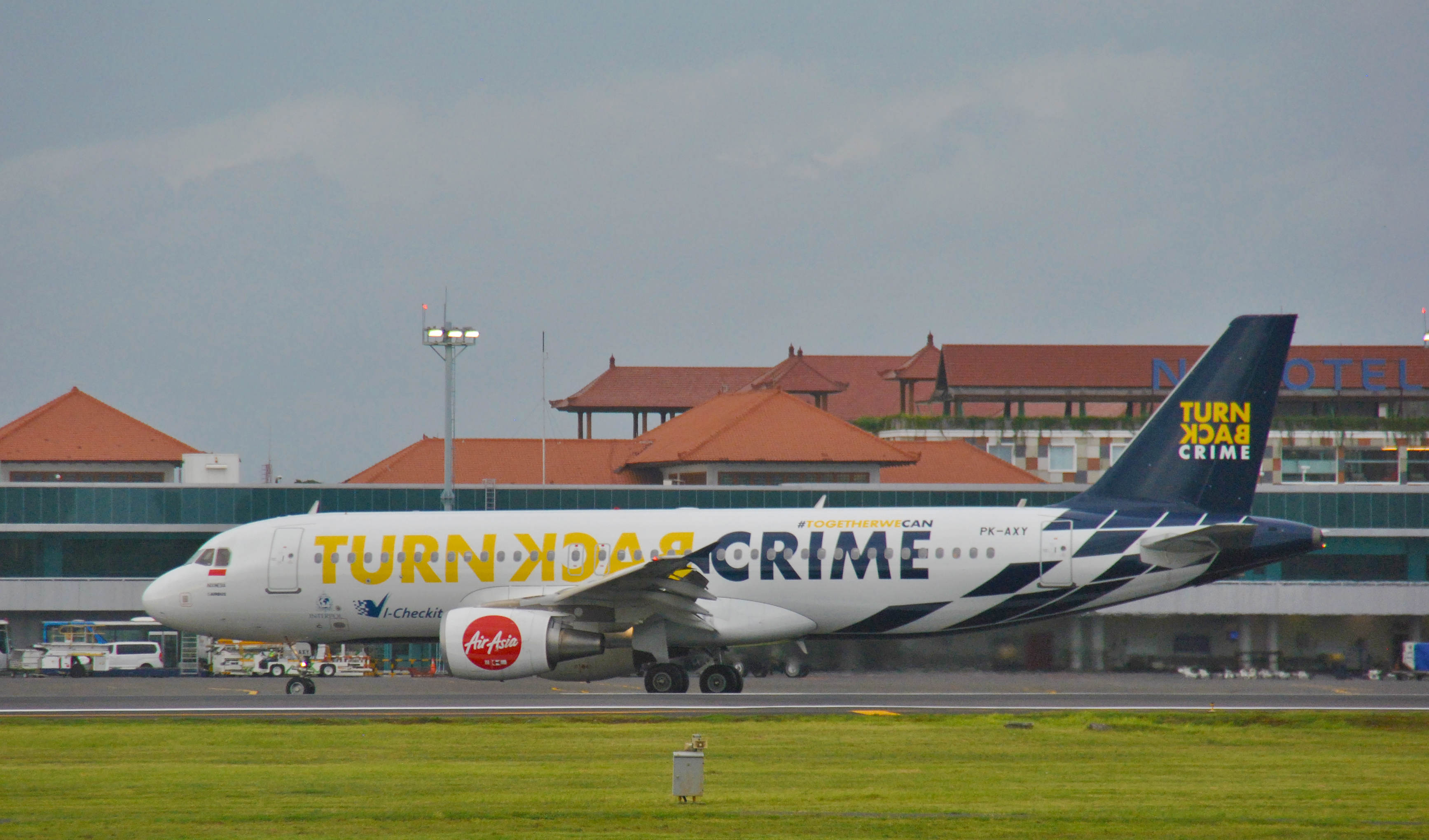 Indonesia AirAsia Airbus A320-200 (PK-AXY, Interpol 'Turn Back Crime' livery) after touchdown at Ngurah Rai Airport, Tuban, Badung Regency, Bali, Indonesia